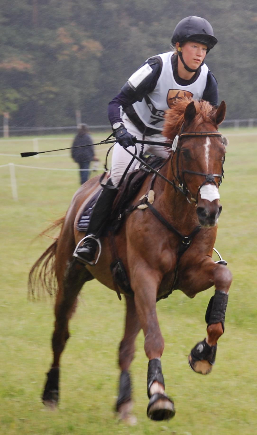 Second placed at the 2011 CCI 4*-event Luhmühlen: Sandra Auffarth with Opgun Louvo